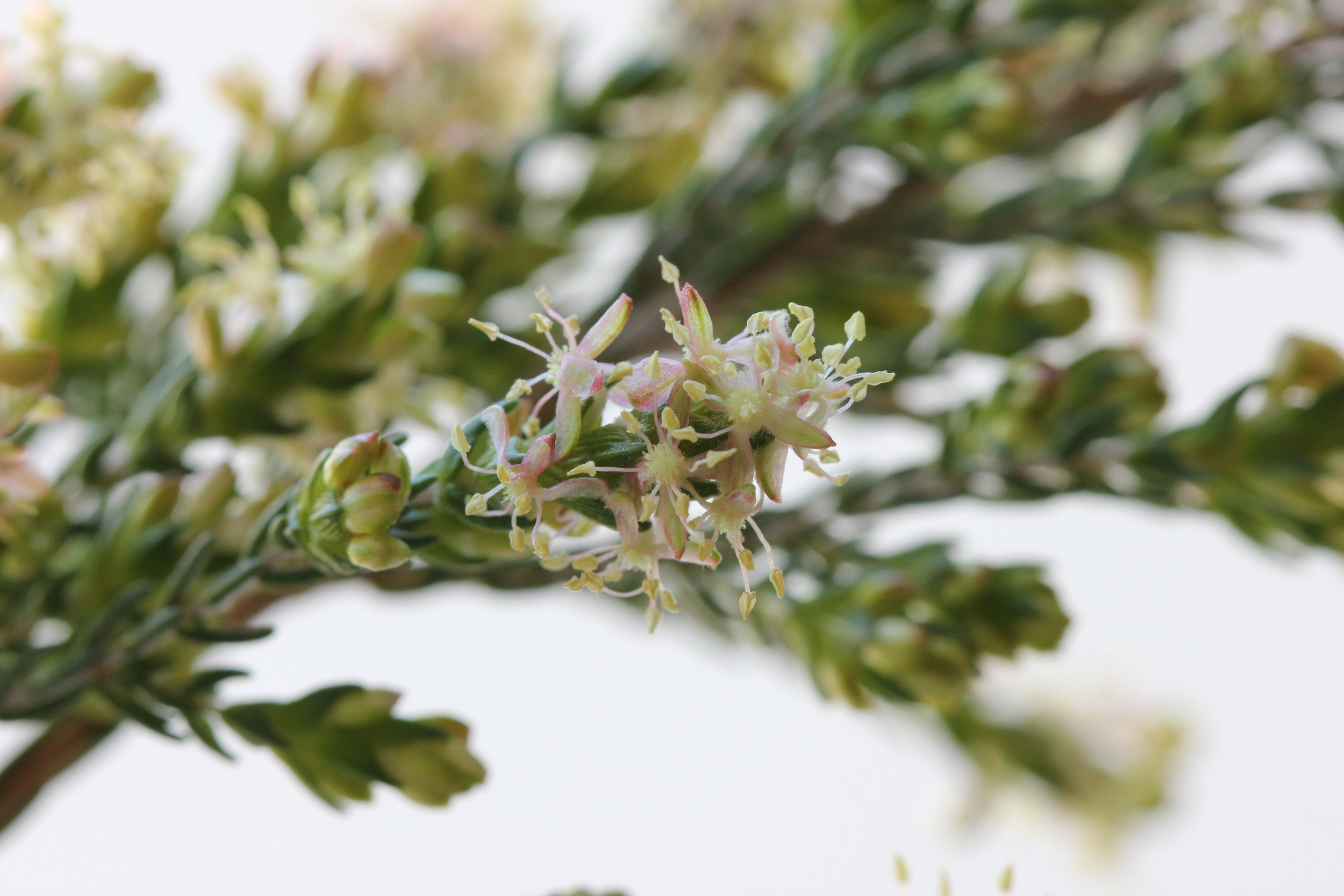 Thymelaeaceae. Unidentified Passerina species. Sprig showing details of flowers